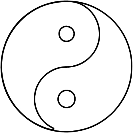 The symbol which appears onto Orochimaru's Ninja's clothes.